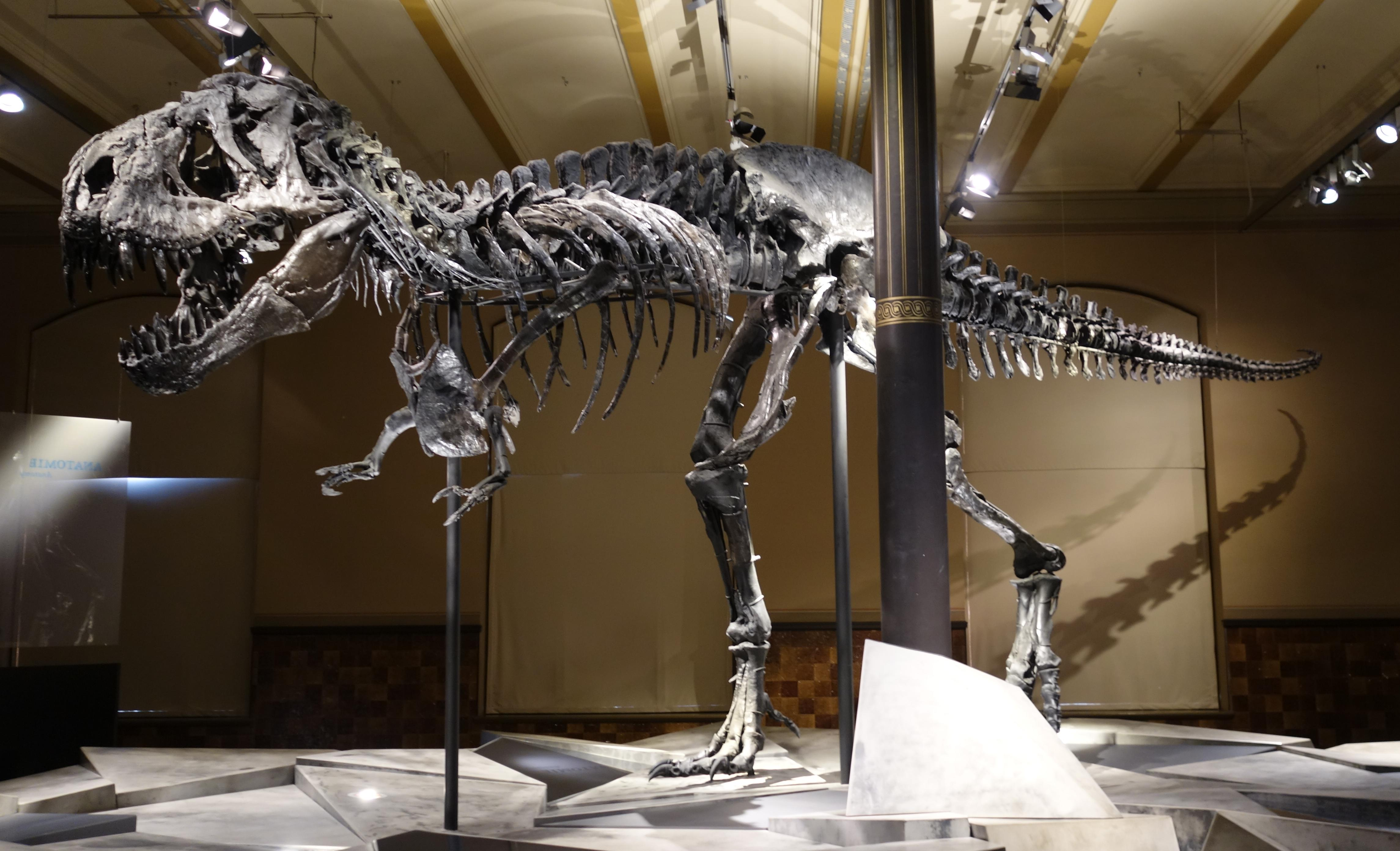 Mount of Tyrannosaurus specimen "Tristan" at the Museum für Naturkunde, Berlin.